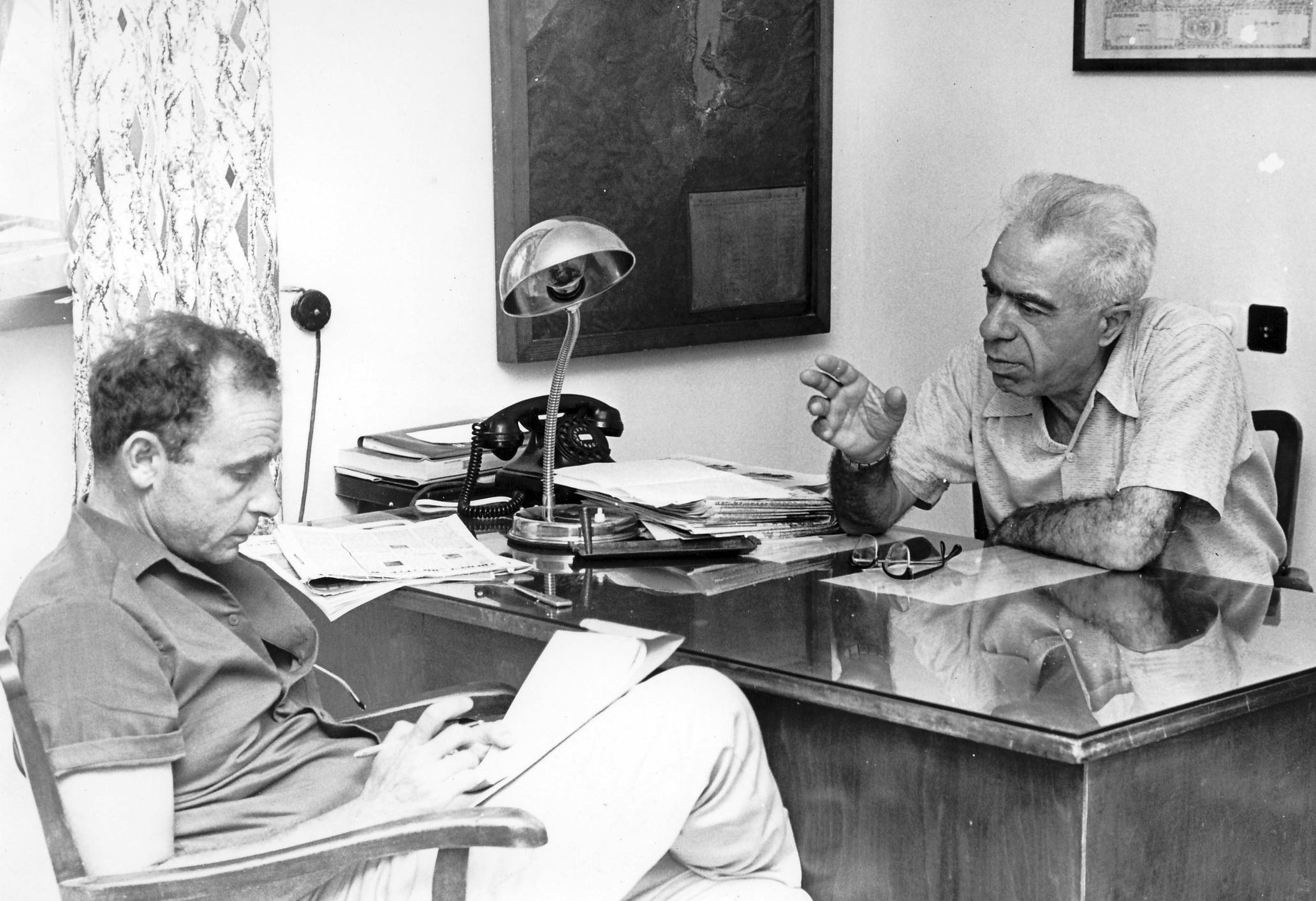 Gan-Shmuel sb2- 9, Politics of Israel